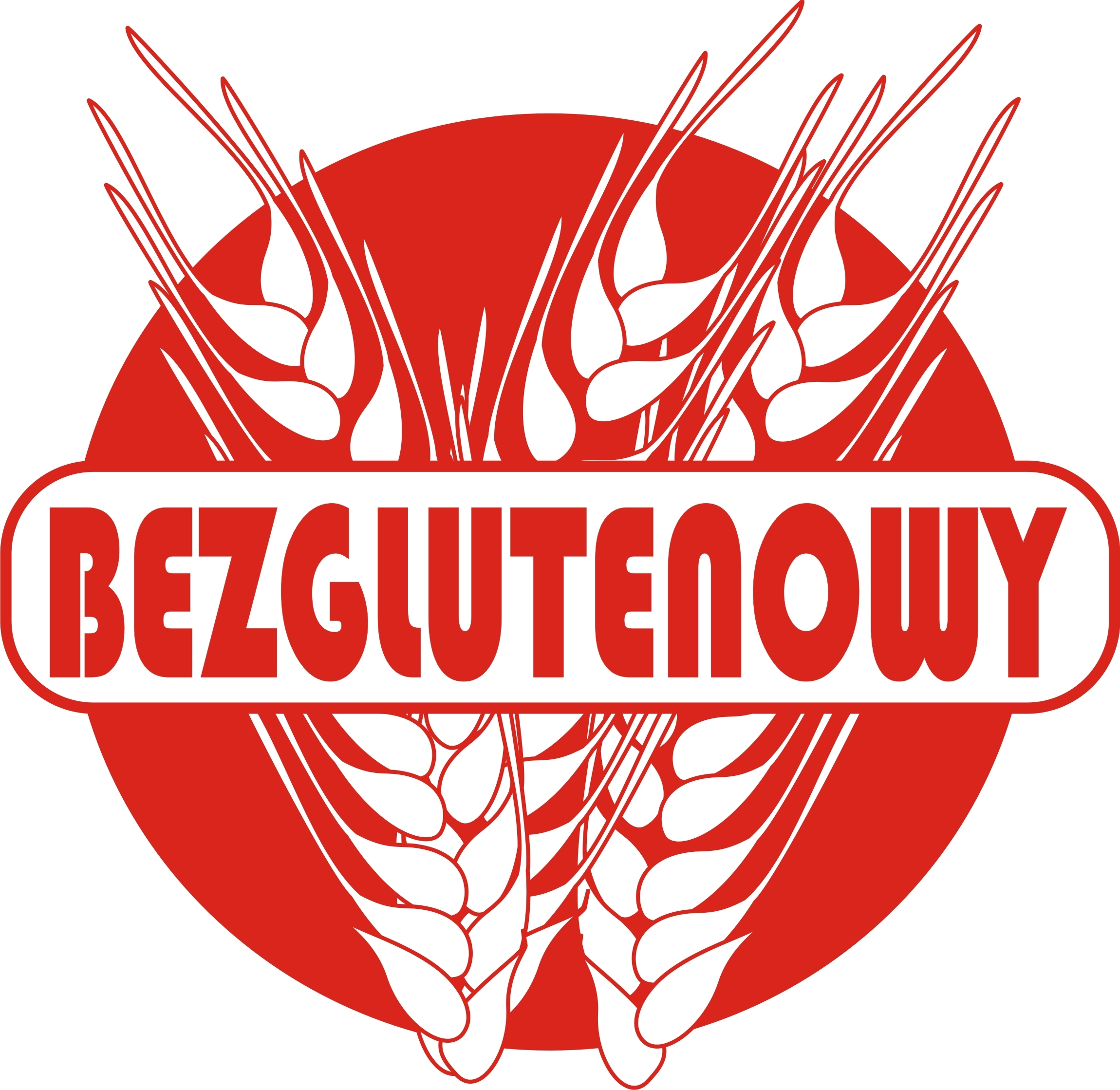 gluten free